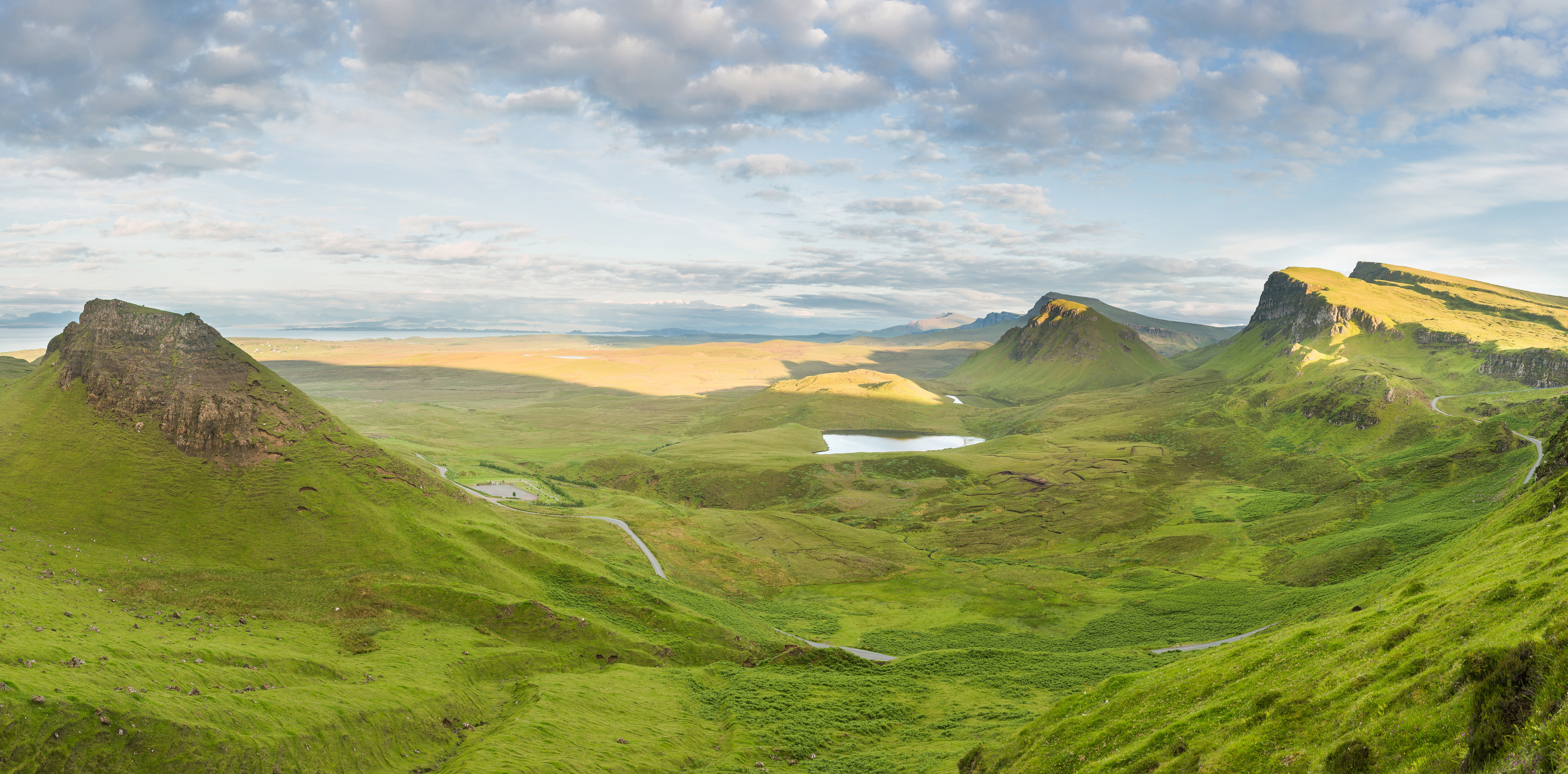 Looking south in the Quiraing on the Isle of Skye in Scotland.